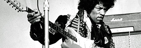 Jimi Hendrix at the amusement park Gröna Lund in Stockholm, Sweden, May 24, 1967.